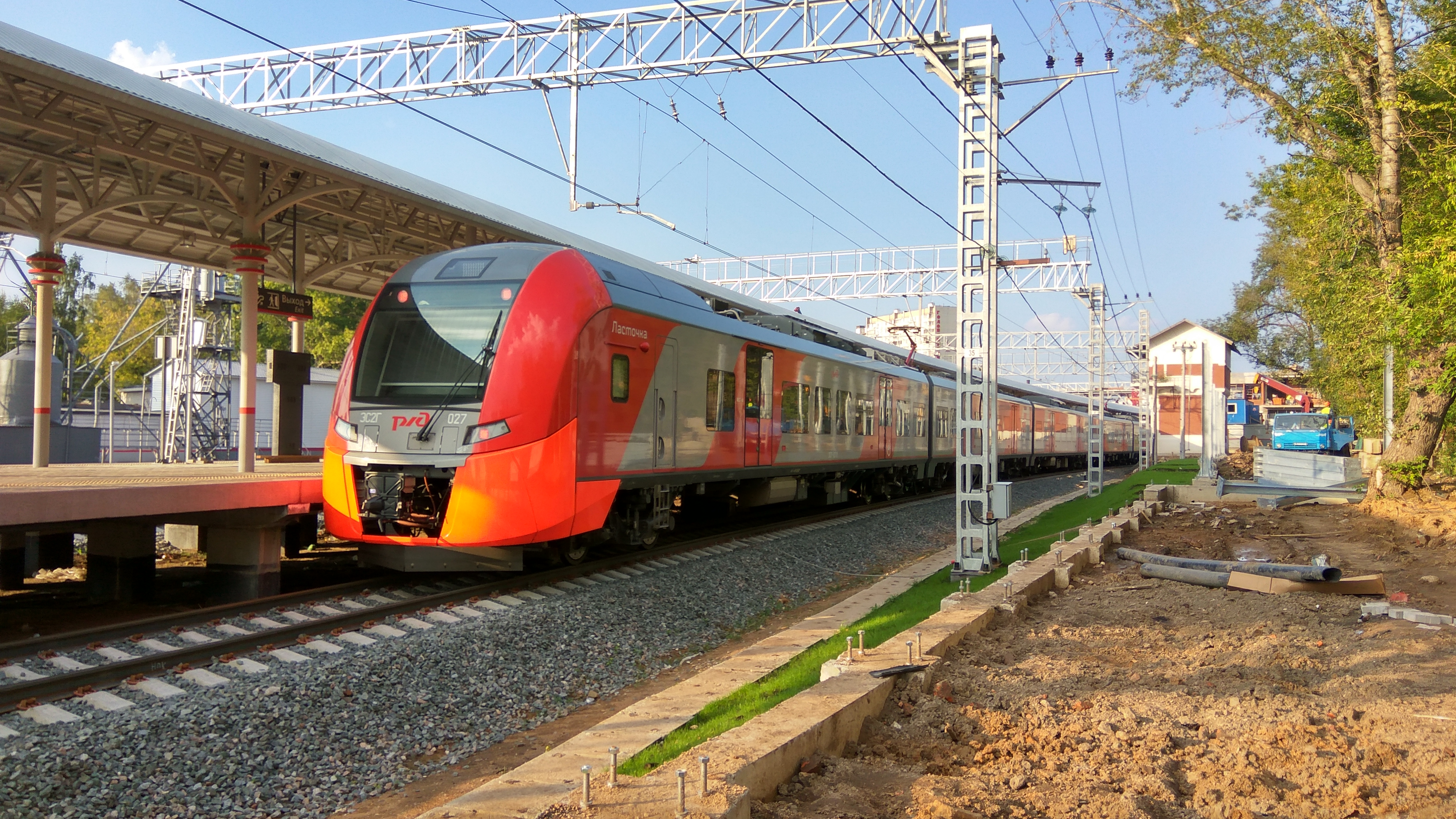 ЭС2Г-027 Коптево The wall along railway is installing, so this view will be not repeatable.